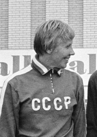 4x100 freestyle women podium, 1966 Europoean Championships Natalya Ustinova